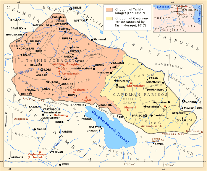 Map of the Kingdom of Lori, Northern Armenia. The Kingdom of Lori-Joraget, c. 980- c. 1240